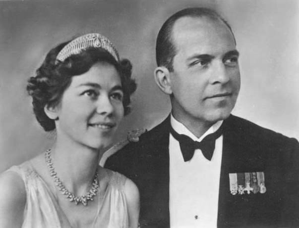 The official portrait ofCrown Prince (later king) Paul of Greece and Crown Princess (later queen) Frederica of Greece